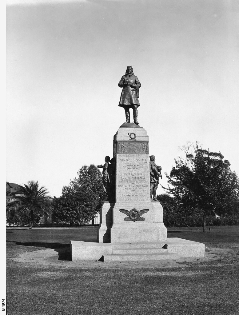 Sir Ross Smith Memorial Statue [B-4974], Cresswell Gardens (Adelaide Parklands adjacent to the Adelaide Oval) [General description] The bronze statue of Sir Ross Smith stands on a red granite plinth which features bronze bas-relief work depicting aeroplanes and various symbols. Bronze figures stand at either side of the plinth, one being a Roman soldier. The inscription reads: 'Sir Ross Smith / Born at Semaphore Australia / December 4th 1892 / Died at Weybridge England / April 13th 1922 / Erected by the people of South Australia to commemorate the first successful flight from England to Australia November 12- December 10 / 1919 / Illi robur et aes triplex'. Sculptor was Mr. Frederick Brook Hitch who won a competition to design this statue. [On back of photograph] 'Sir Ross Smith Memorial Statue / Cresswell Gardens / 1928'